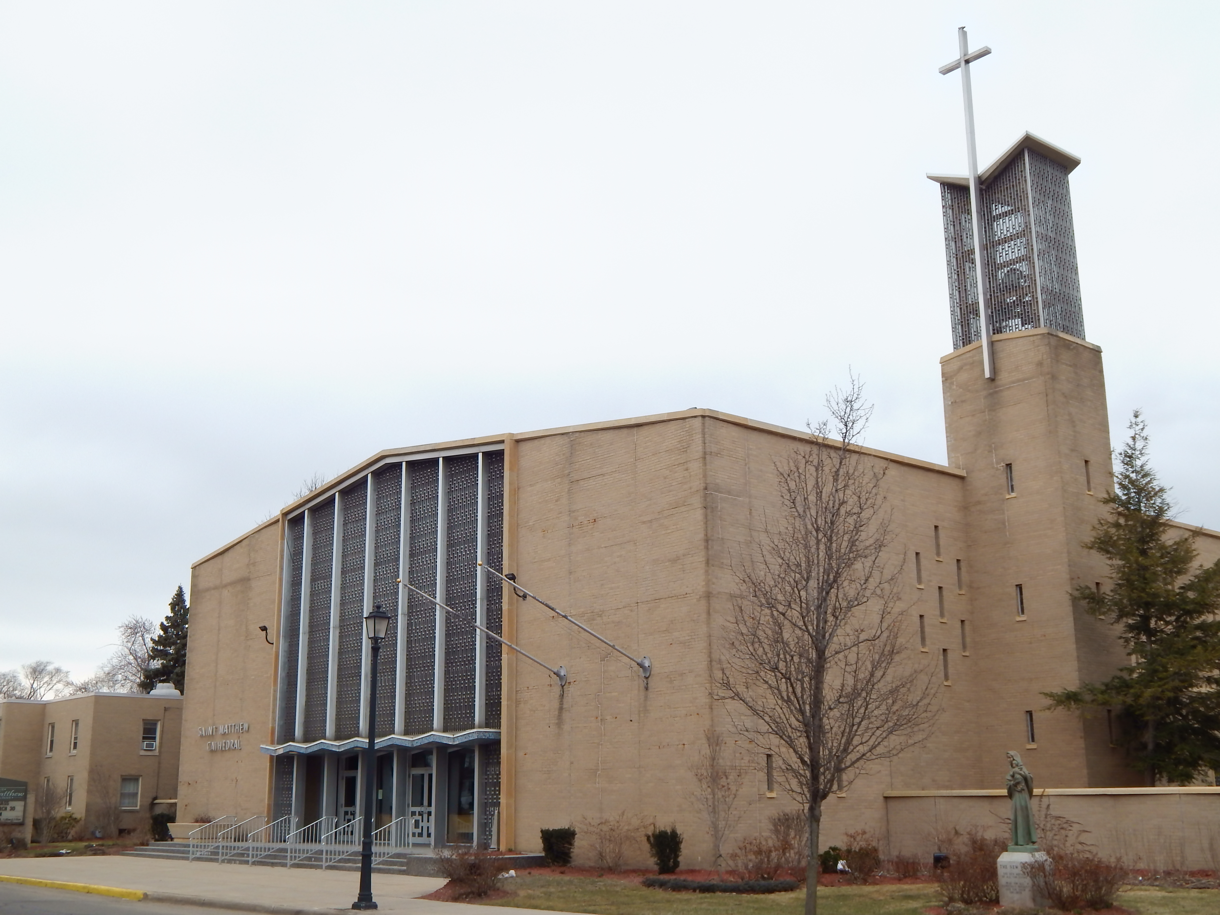 A view of the front of St. Matthew Cathedral, at 1701 Miami Street South Bend, Indiana